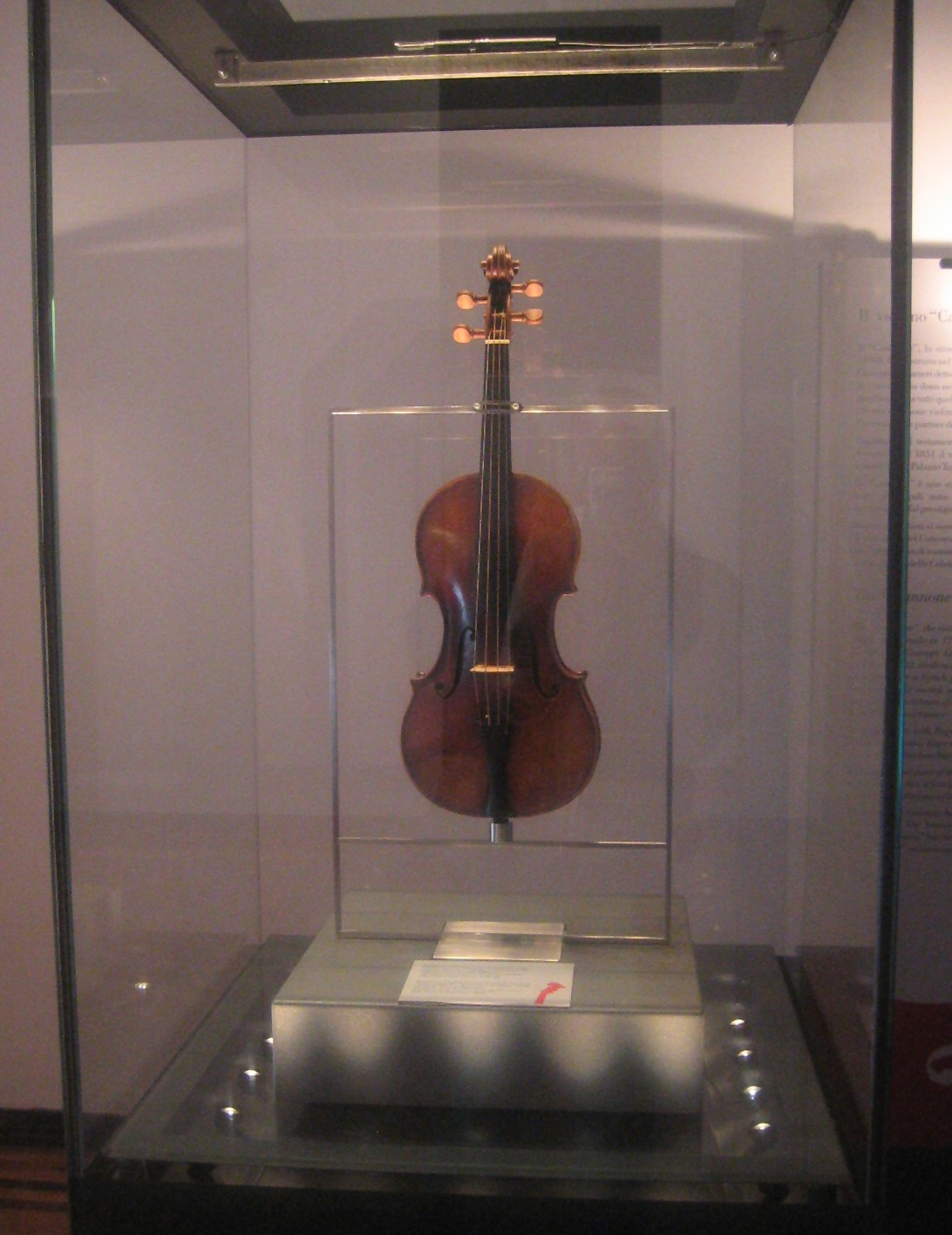 Violin "Il Cannone" (Guarneri del Gesù), played by Niccolò Paganini. Exhibited in Palazzo Doria Tursi, Genova, Italy